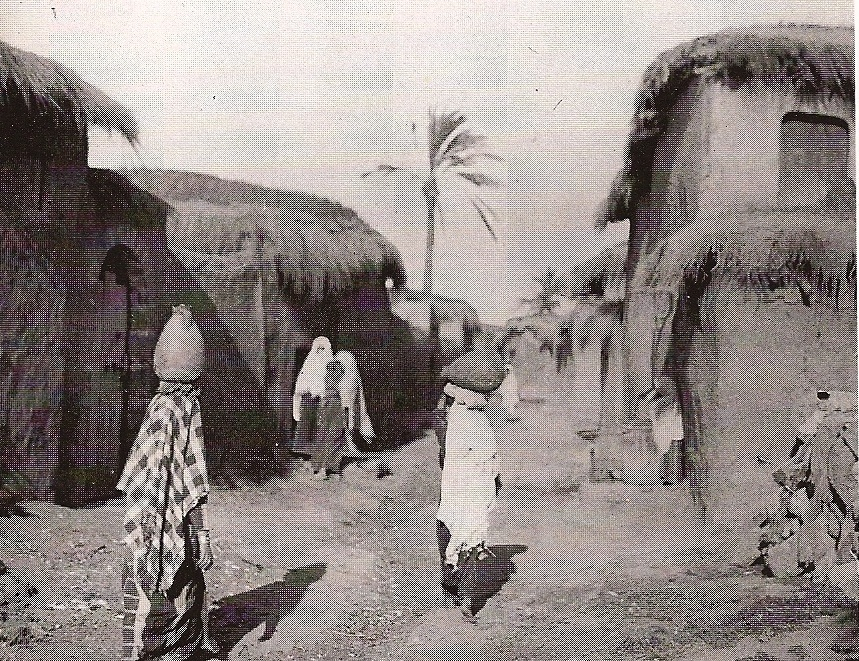 Street scene in Ashdod, circa 1914-18